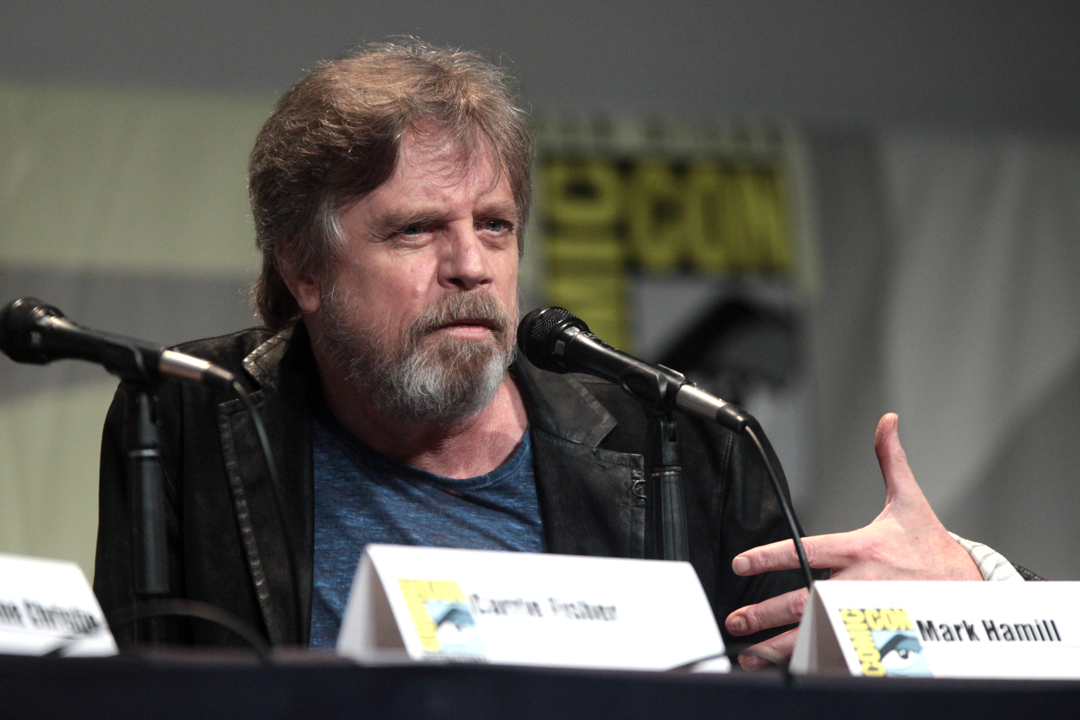 Mark Hamill speaking at the 2015 San Diego Comic Con International, for "Star Wars: The Force Awakens", at the San Diego Convention Center in San Diego, California.